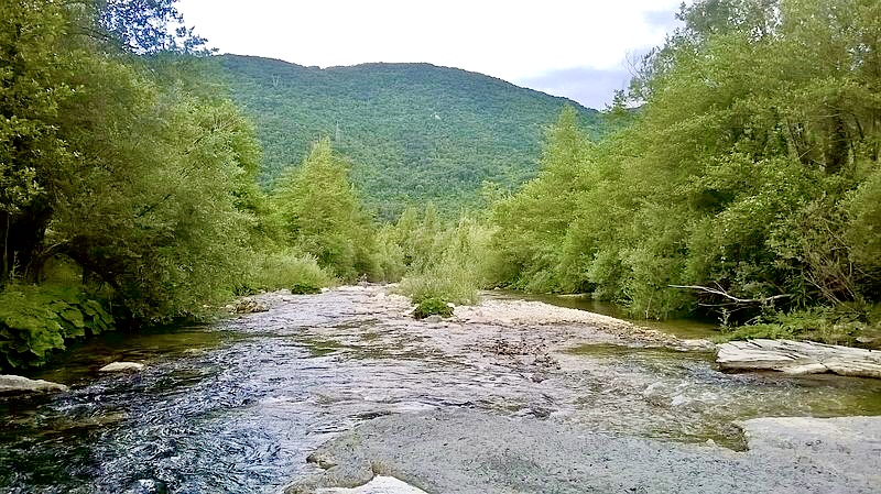 Fiume volturno